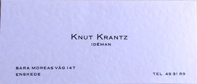 Business card of Knut Krantz, head of Annonsbyrån Svea 1933-1959